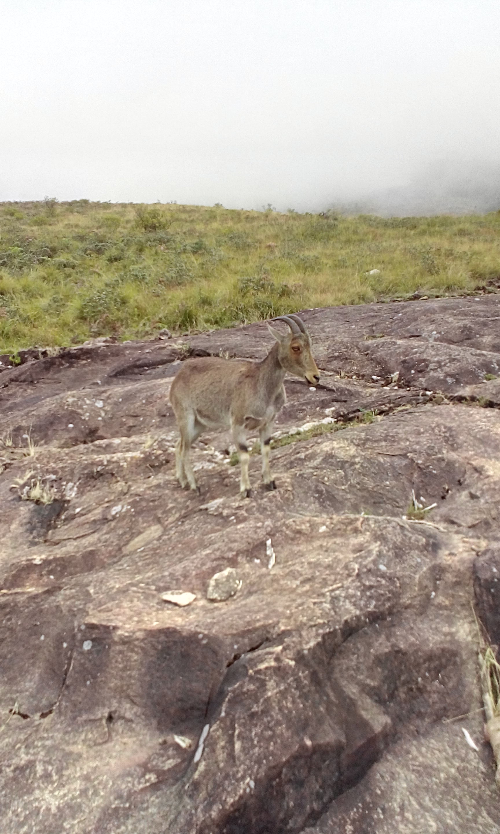 Nilgiri Tahr found at Eravikulam National Park